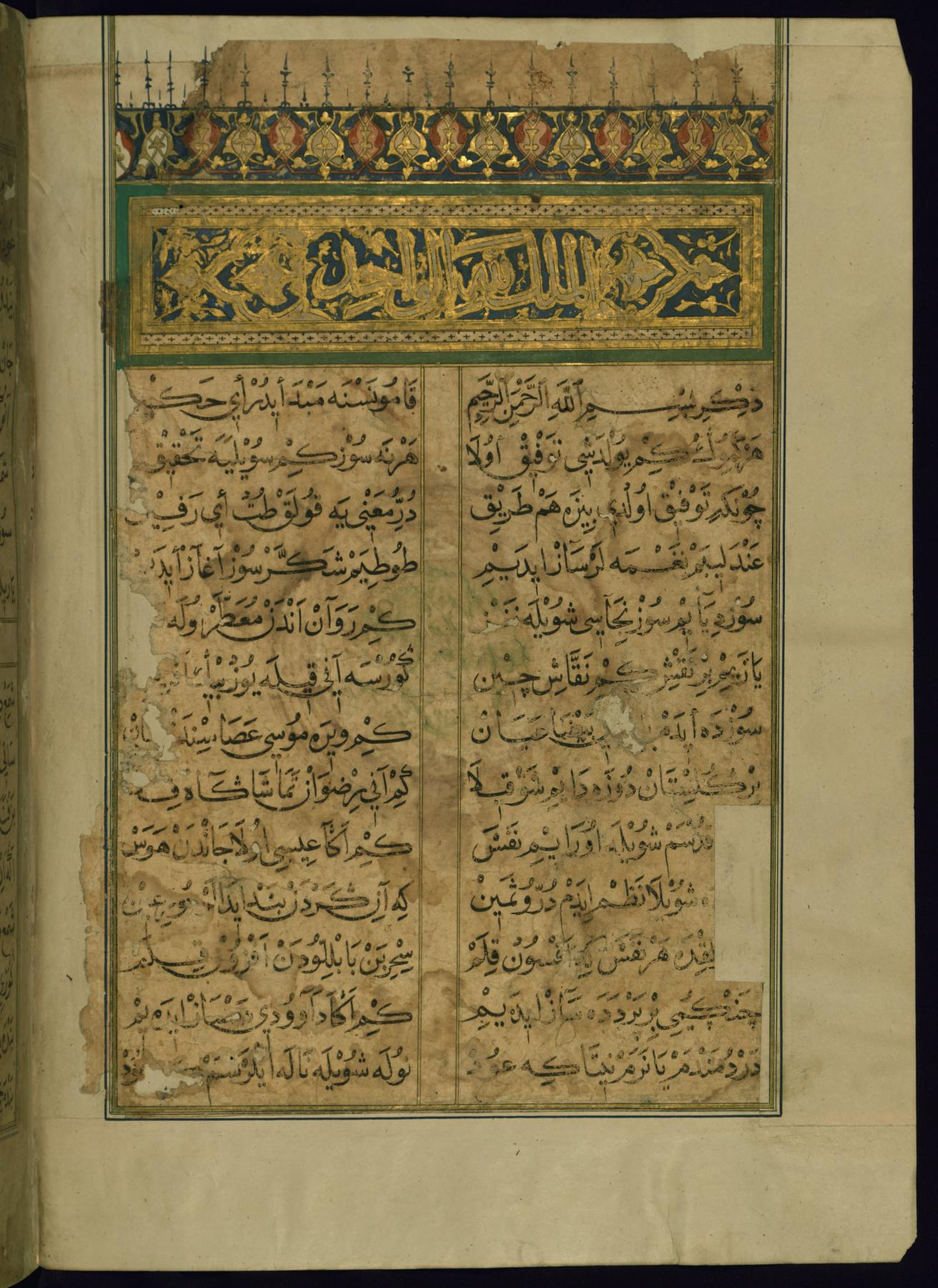 This incipit page from Walters manuscript W.664 with an illuminated titlepiece is inscribed al-mulk li-Llah al-wa?id (Supreme authority belongs to the One God).